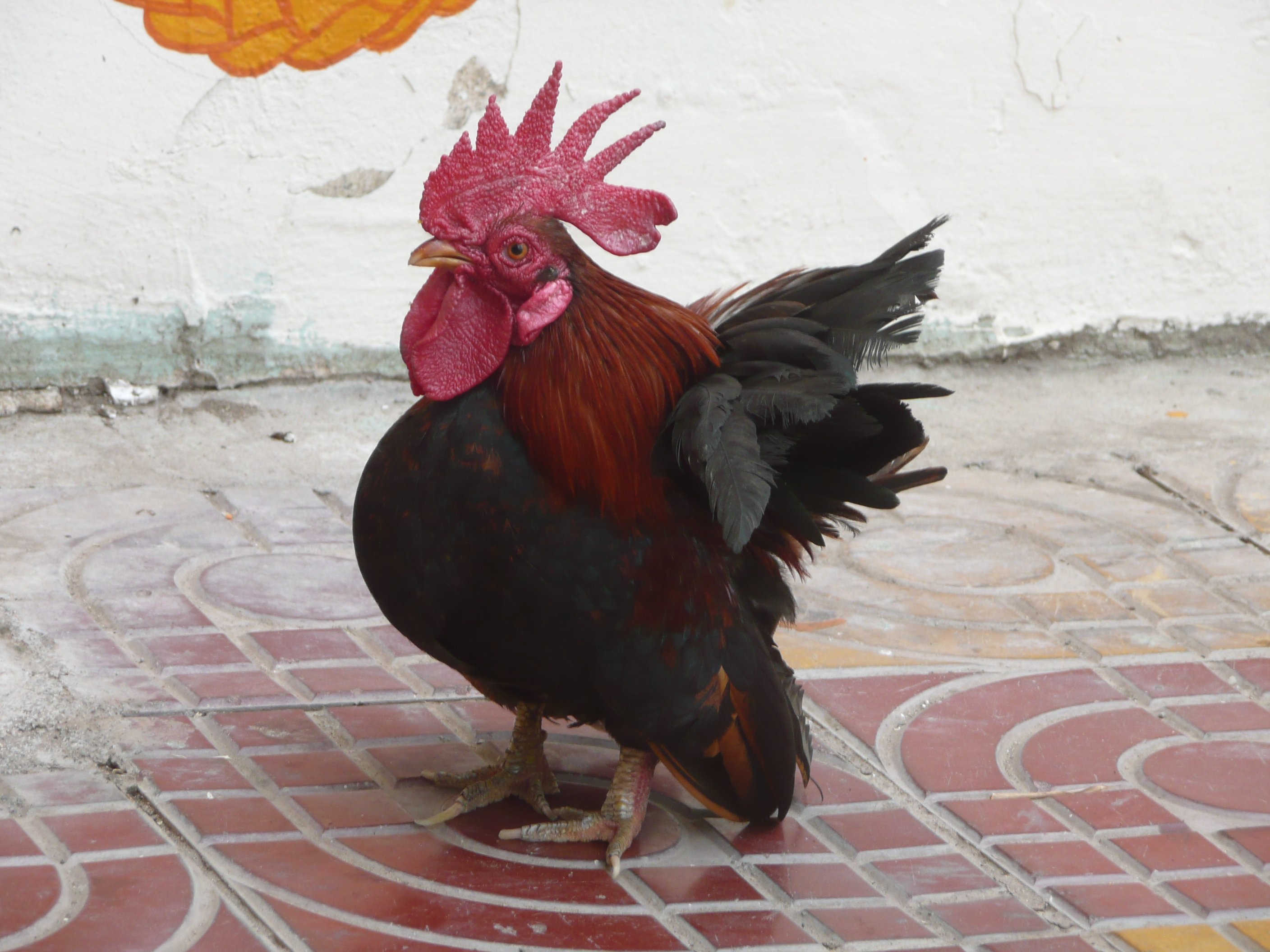 A bantam rooster in Phnom Pehn, Cambodia